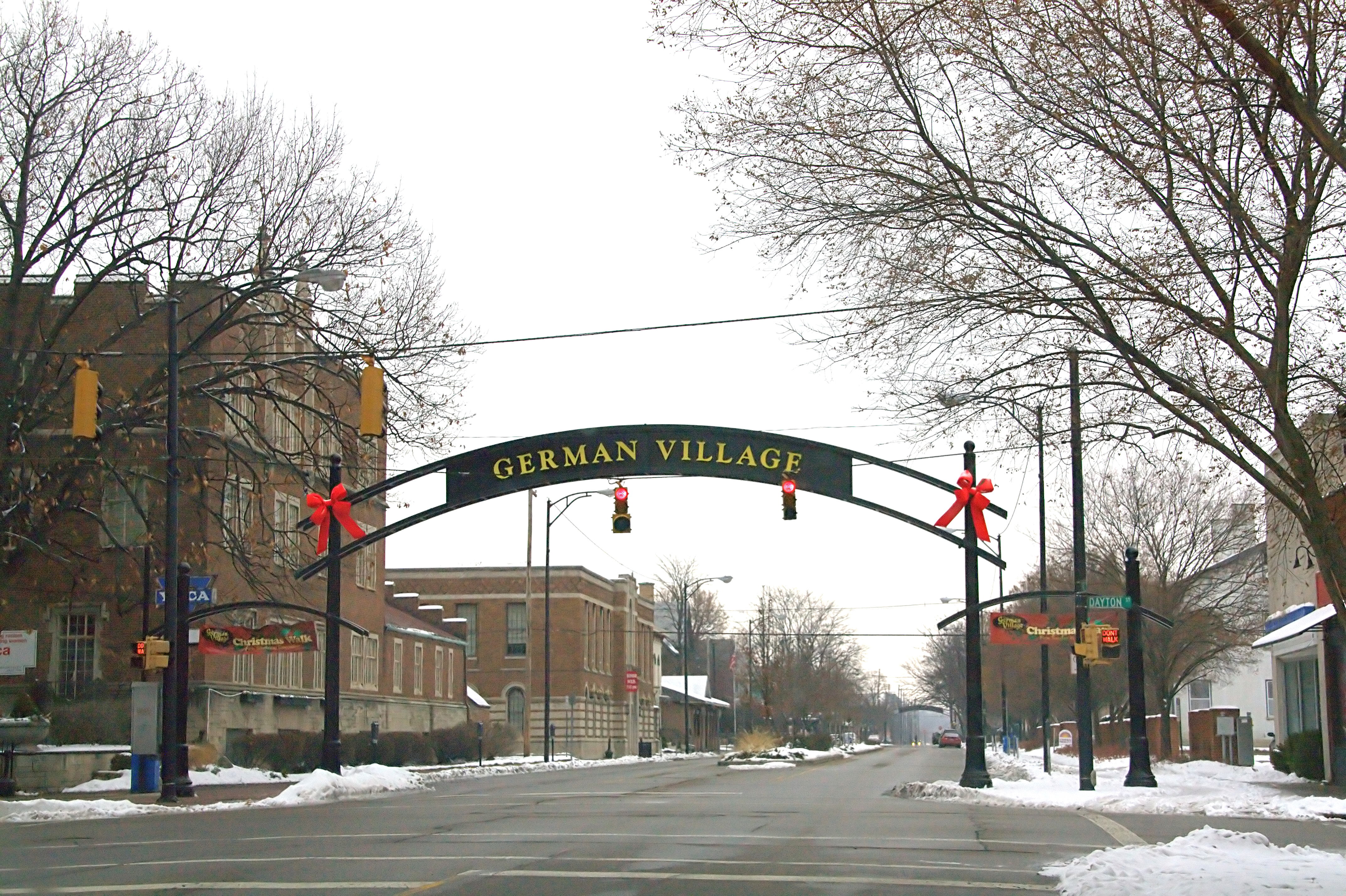 German Village Historic District in Hamilton, OH. Photo by Greg Hume